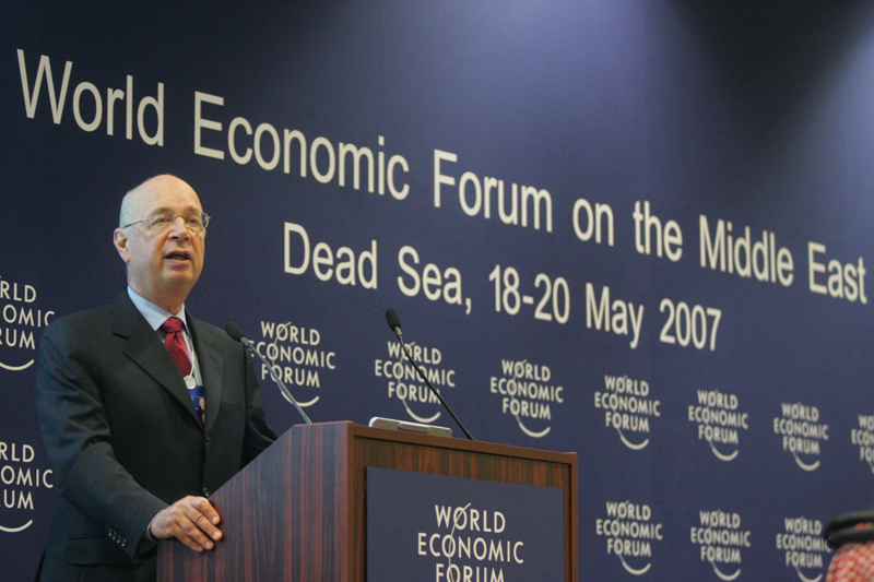 Klaus Schwab captured at the World Economic Forum on the Middle East held at the Dead Sea in Jordan 18-20 May 2007.